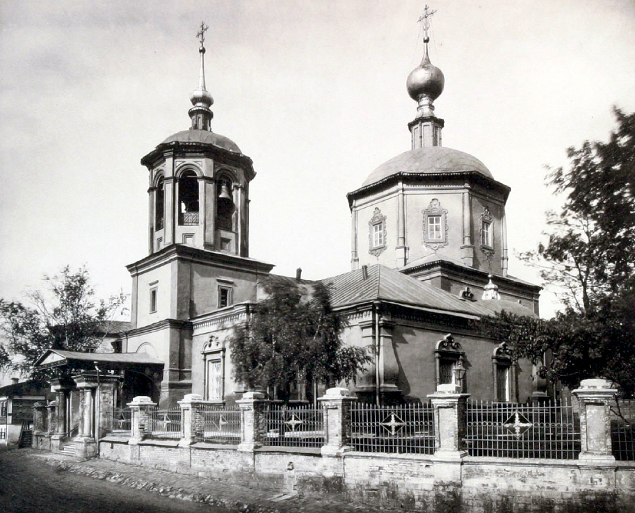 Church of Trinity in Samotyoka, Moscow.